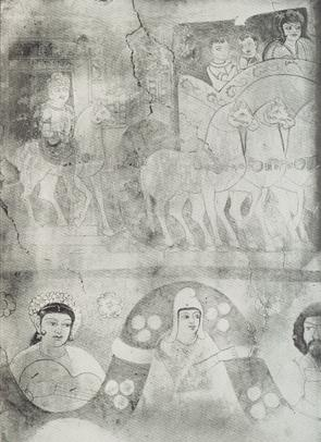 Fresco from Stupa shrine M V (Miran, China)